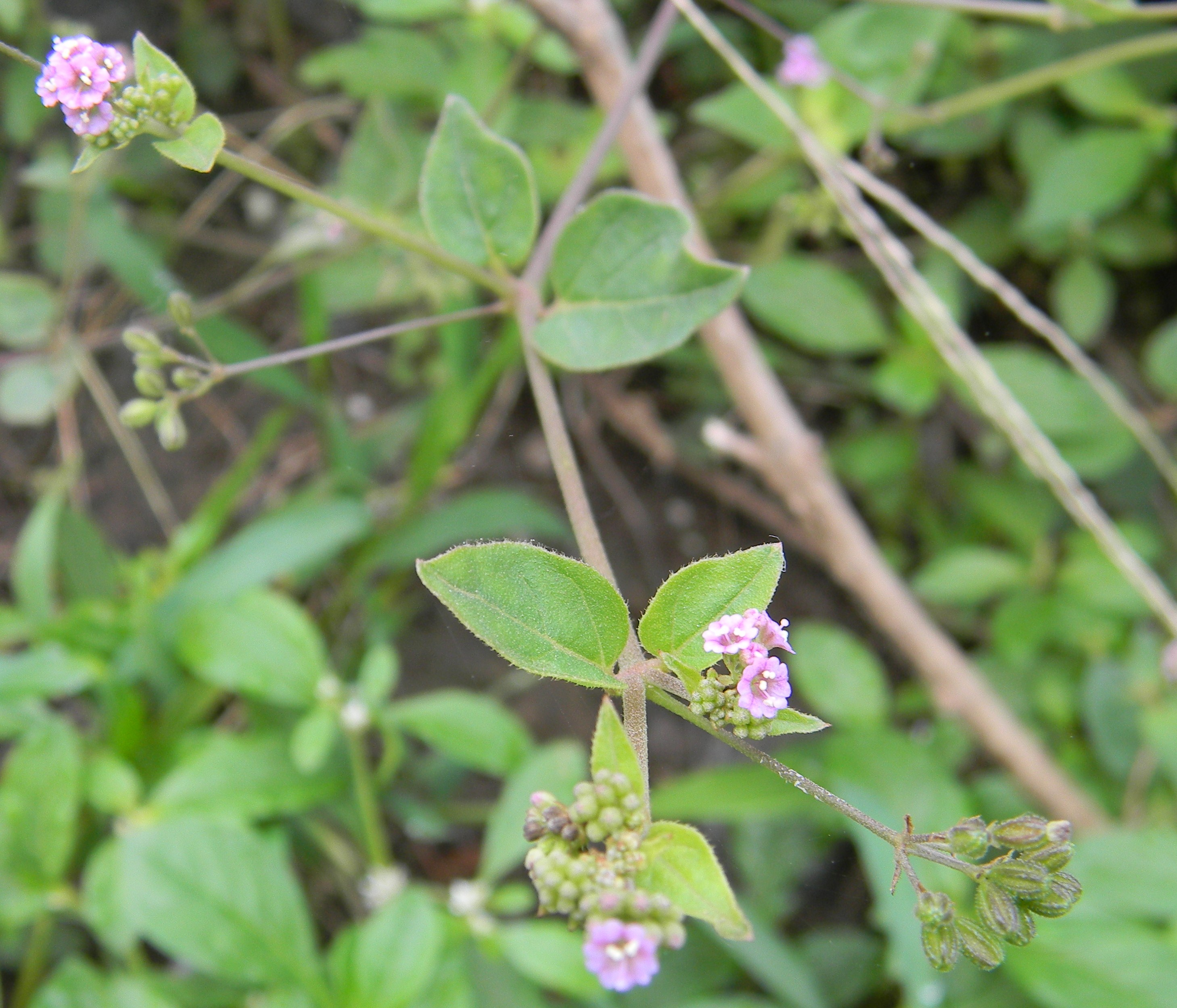 This is Boerhavia diffusa,a herb, popularly called as 'Punarnava" (Sanskrit name) .